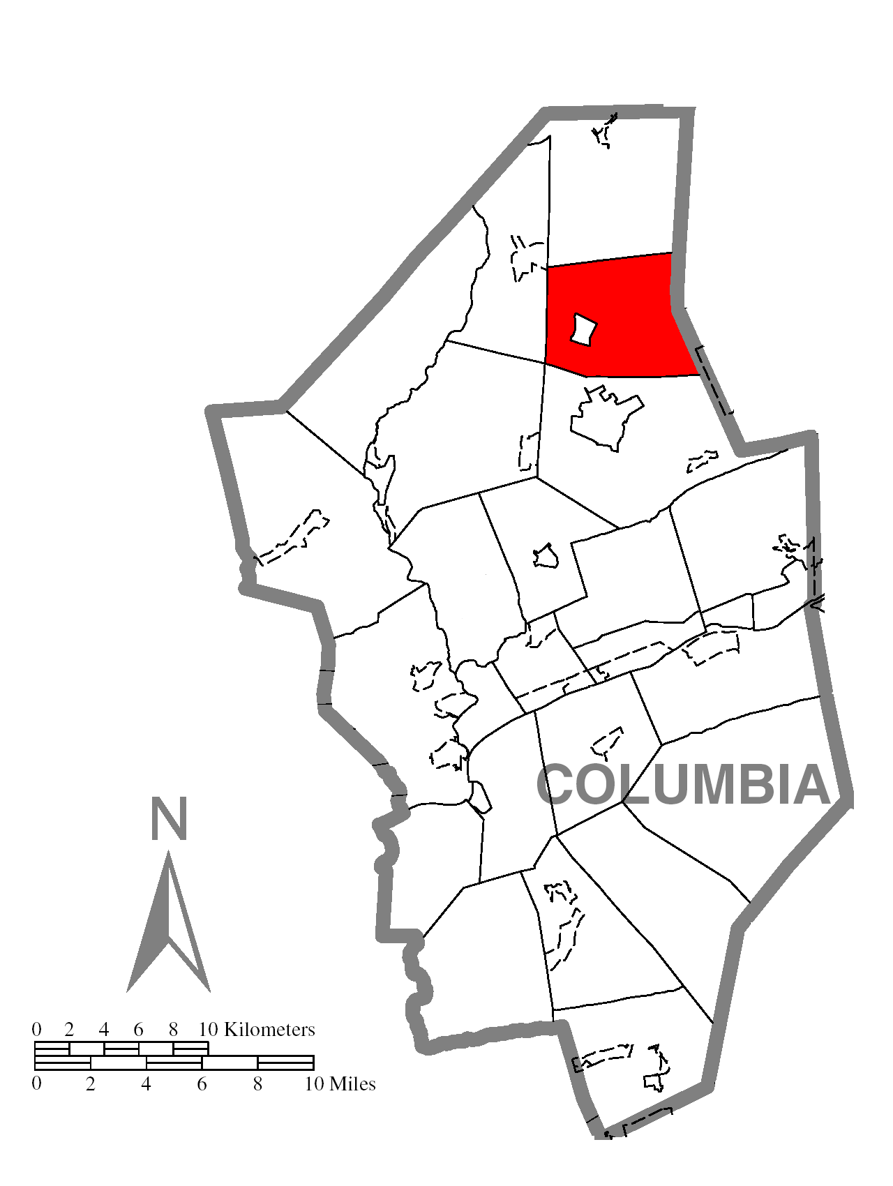 A map of Columbia County showing Benton Township, Pennsylvania (alternate) highlighted on the map.